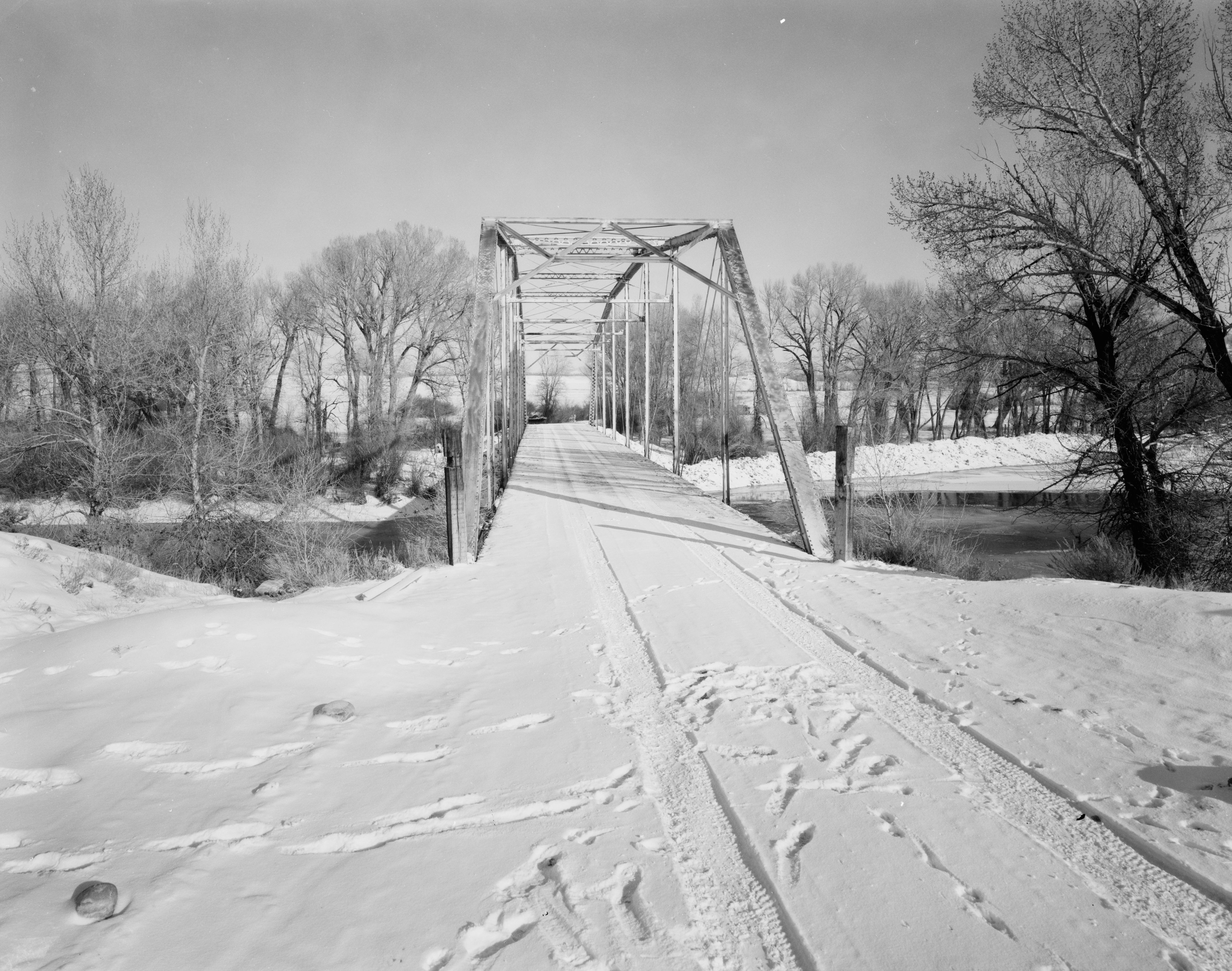 Southern end of the DML-Butler Bridge, which carries County Road CN6-203 over the North Platte River near Encampment in Carbon County, Wyoming, United States. Built in 1930, this camelback through truss bridge is listed on the National Register of Historic Places in Wyoming.